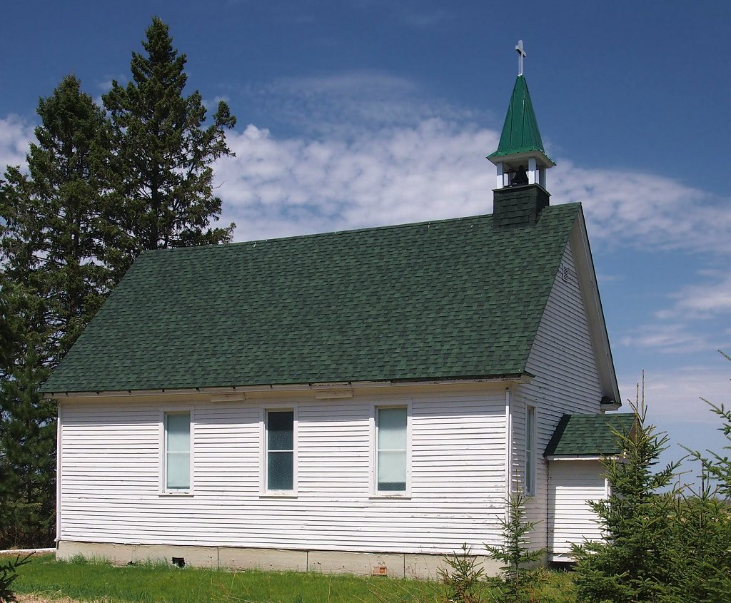 Church of St. Joseph, 7897 Elmer Road, Elmer Township, Minnesota, USA. Viewed from the southeast.